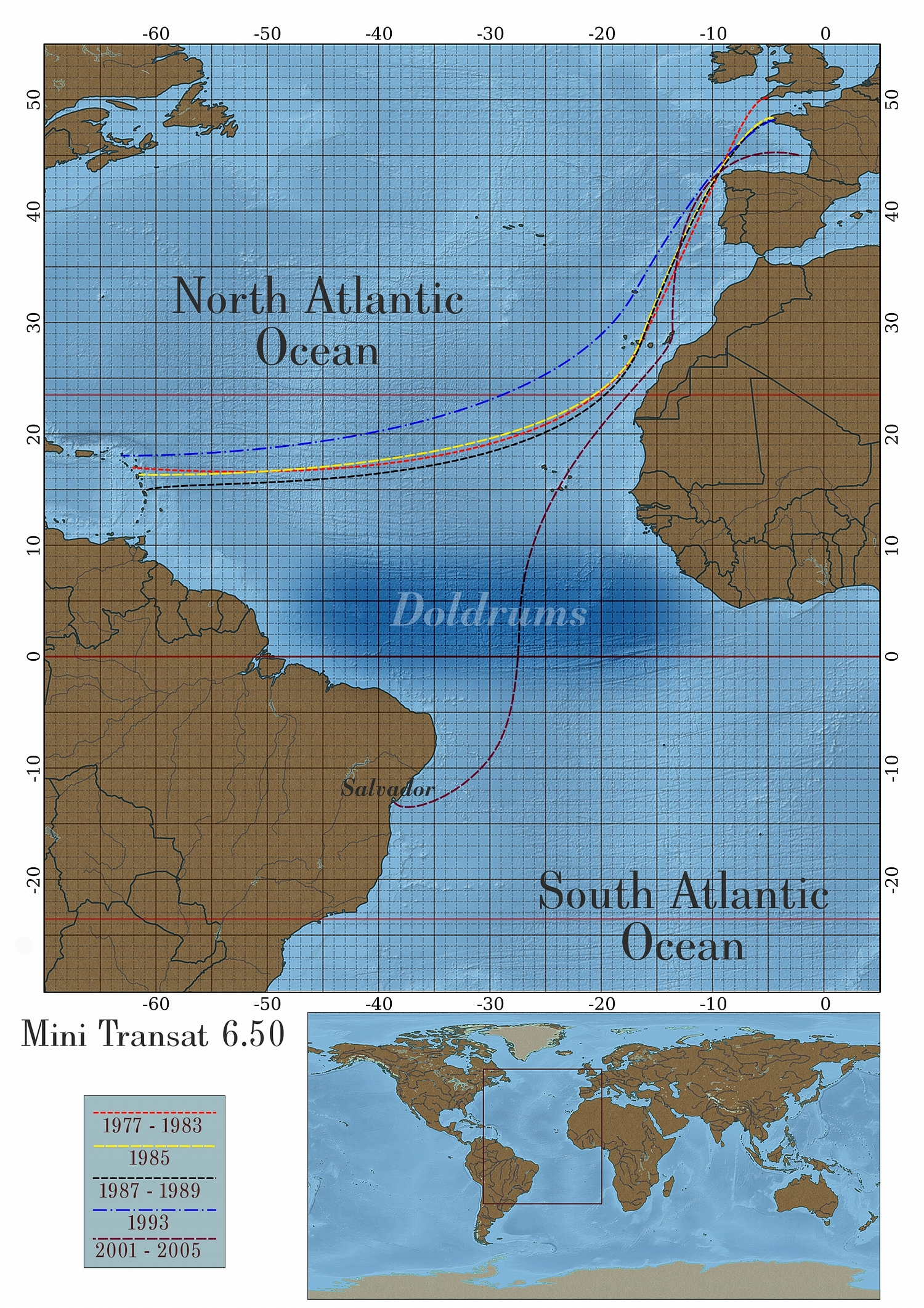 Map over routes for Mini Transat 6,50